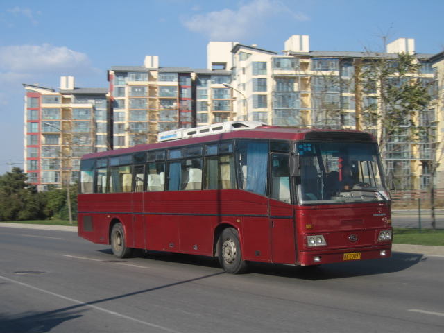 Early King Long model with Padane bodywork.